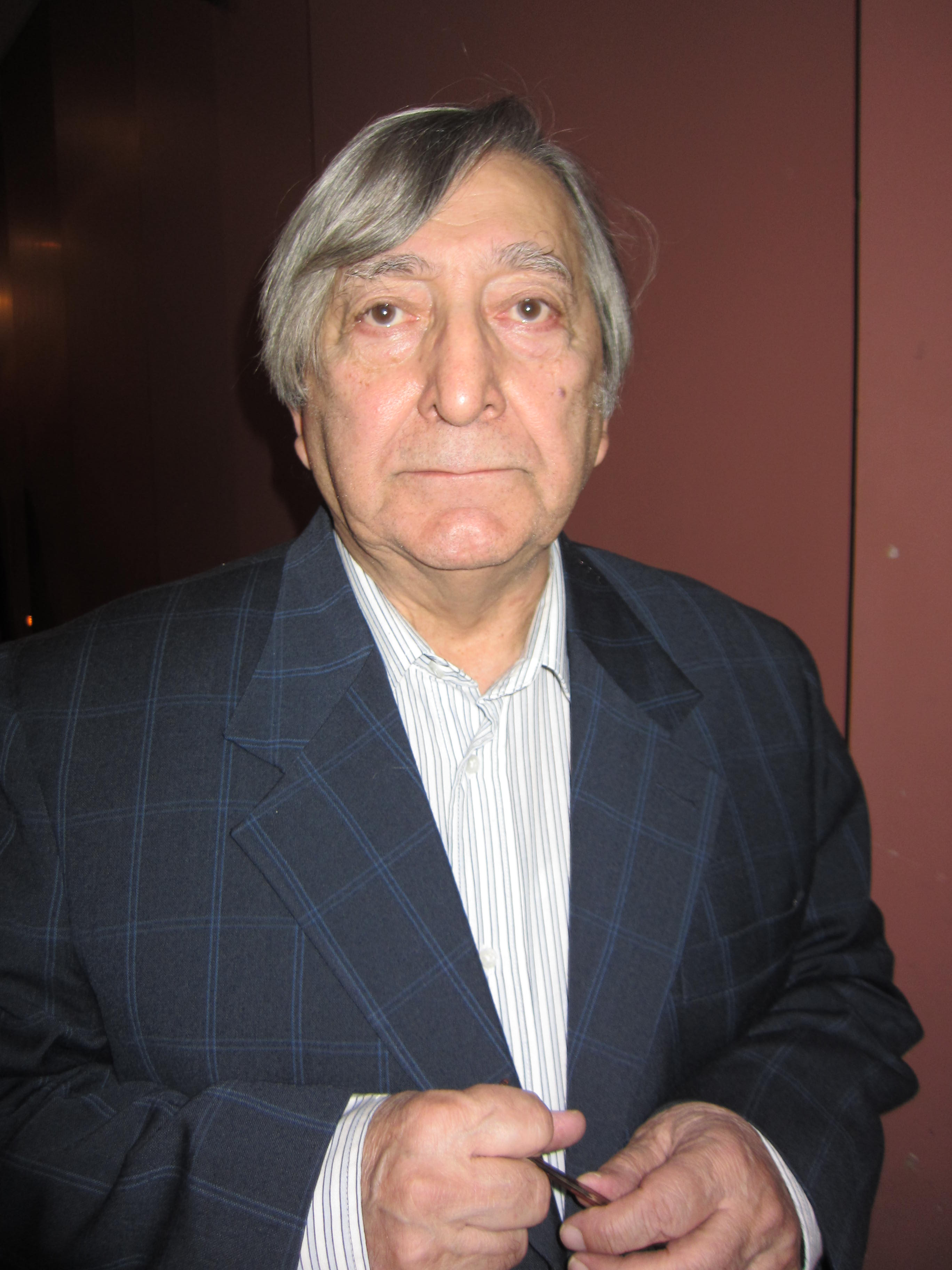 Alireza Mashayekhi at the 30th Fajr International Music Festival, 19 February 2015